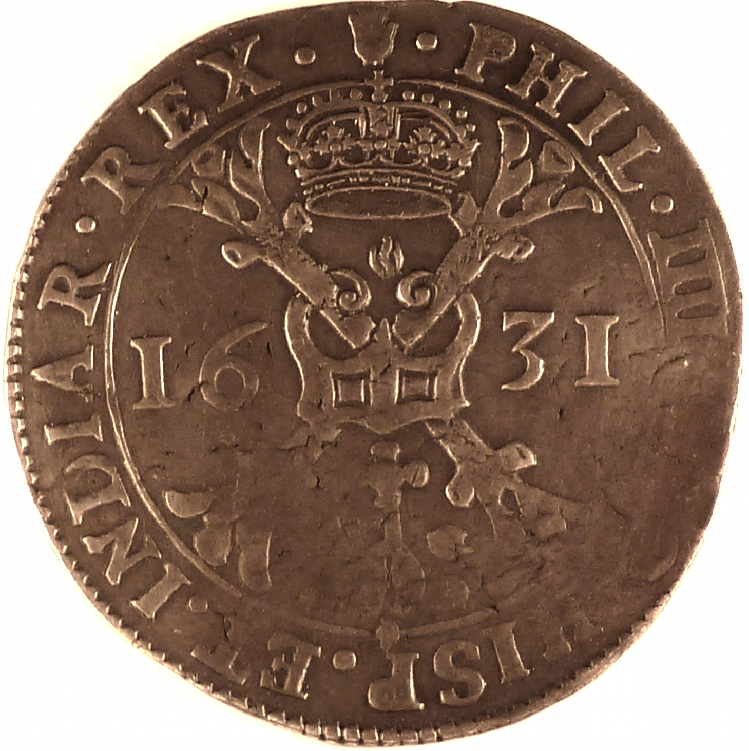 Spanish Netherlands, Philip IV (r. 1621-1665). Patagon, 1631. Mint of Antwerp.